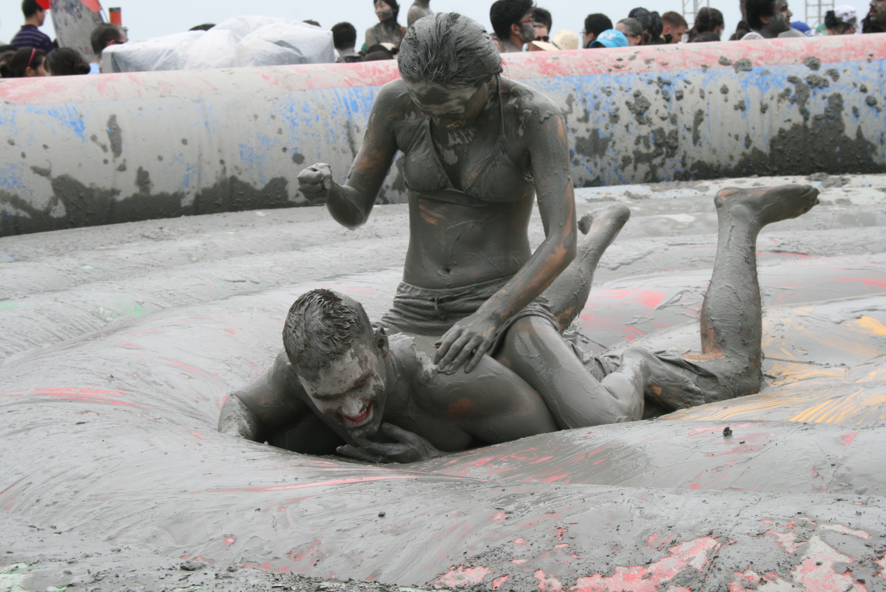 A man and a woman mud wrestling at "Mud Fest 2008".